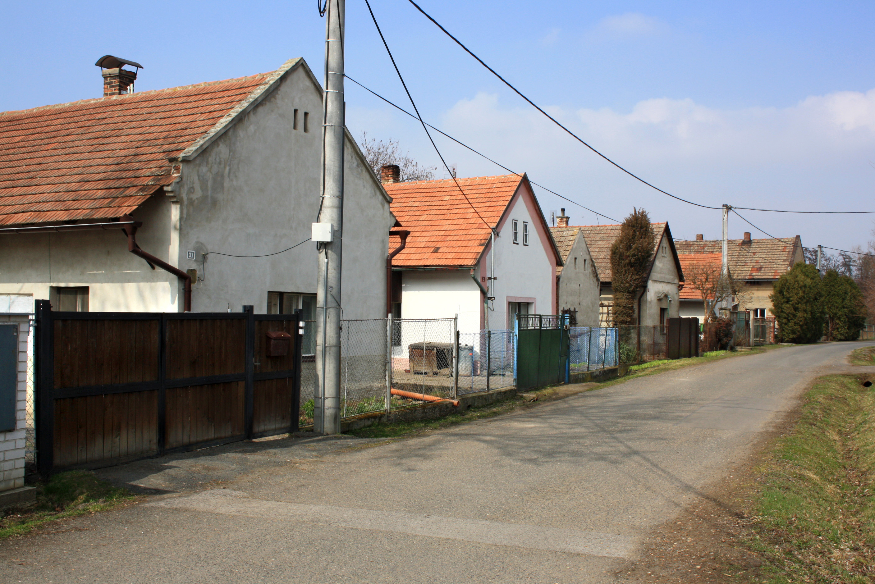 West part of Újezdec, Czech Republic